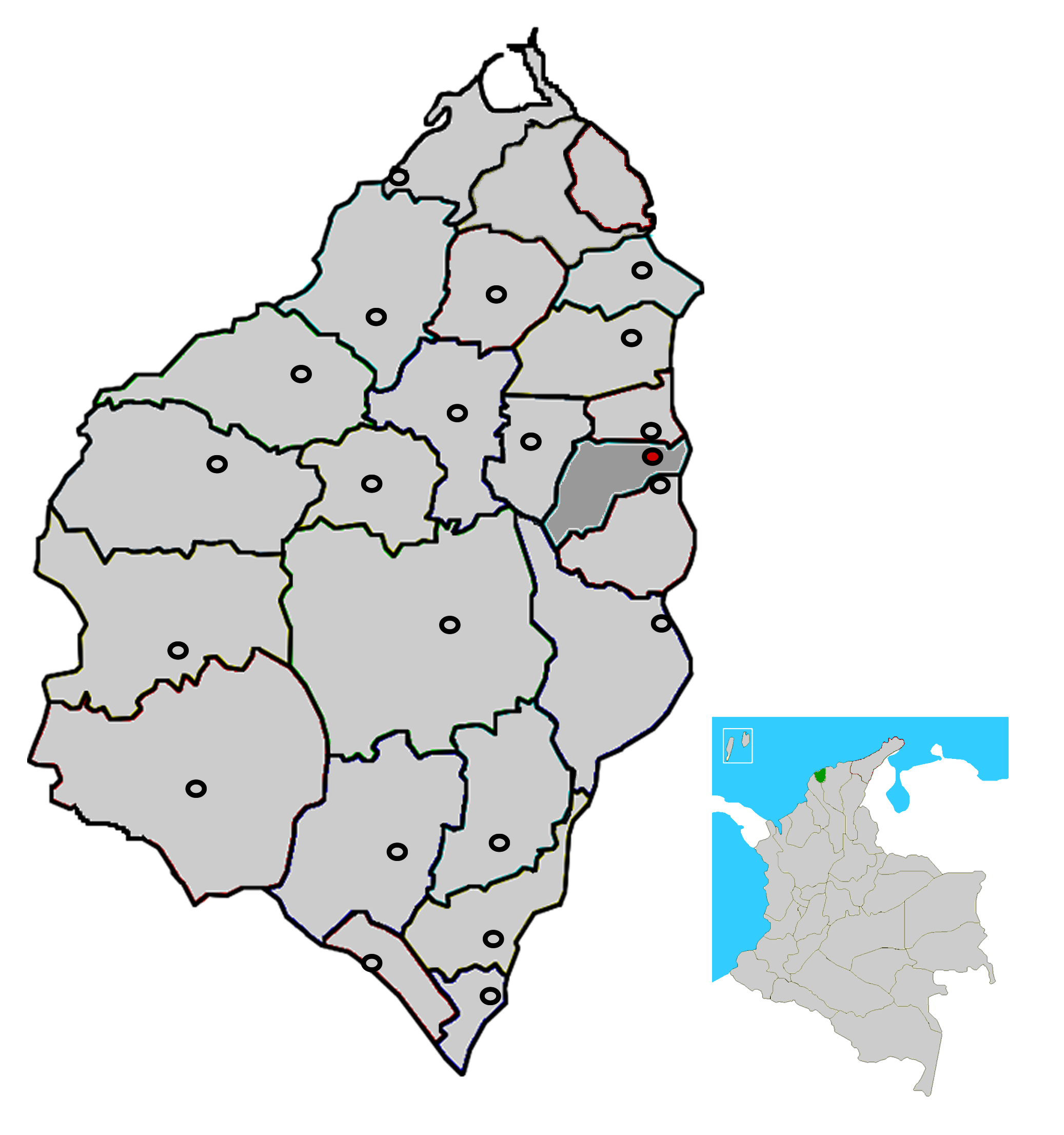 Image depicting map of santo tomas in the Atlantico Department, Colombia